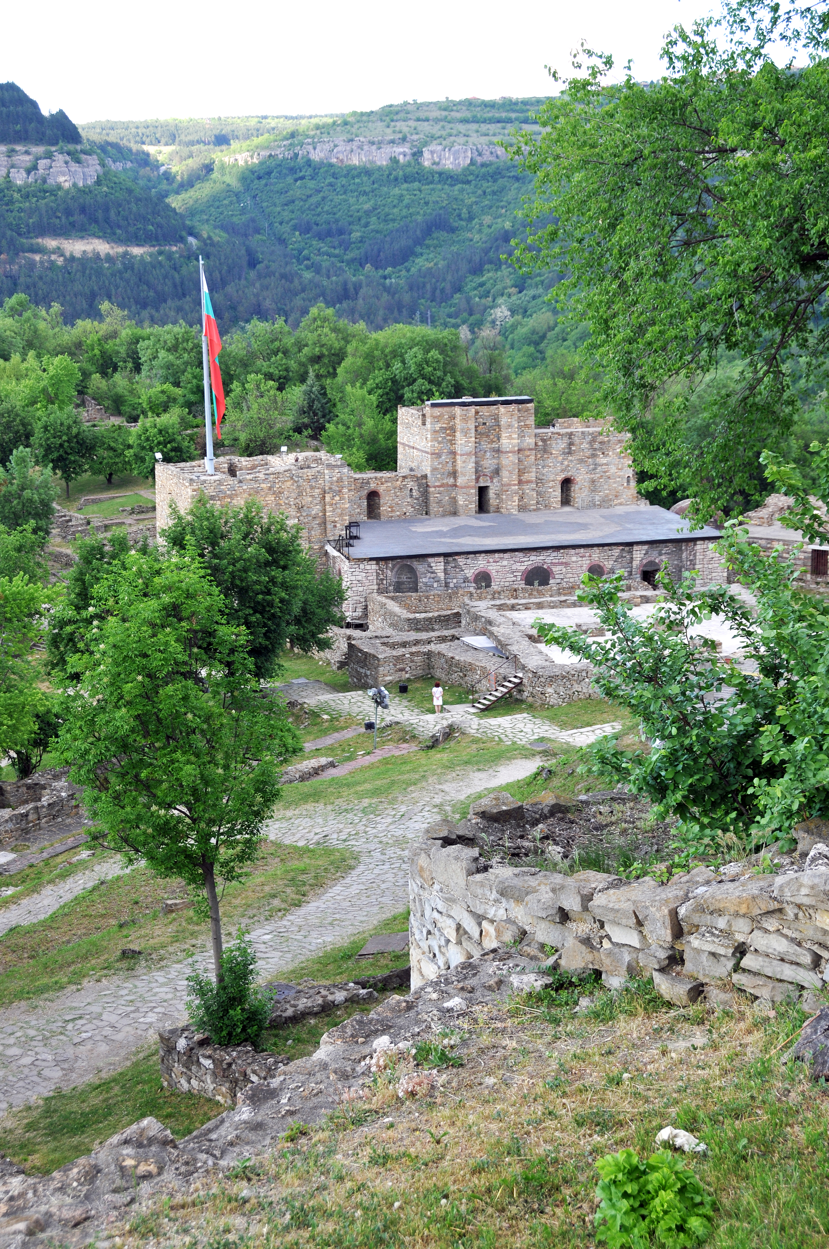 PLEASE, no multi invitations, glitters or self promotion in your comments, THEY WILL BE DELETED. My photos are FREE for anyone to use, just give me credit and it would be nice if you let me know, thanks - NONE OF MY PICTURES ARE HDR. Sections that were part of the palace complex.